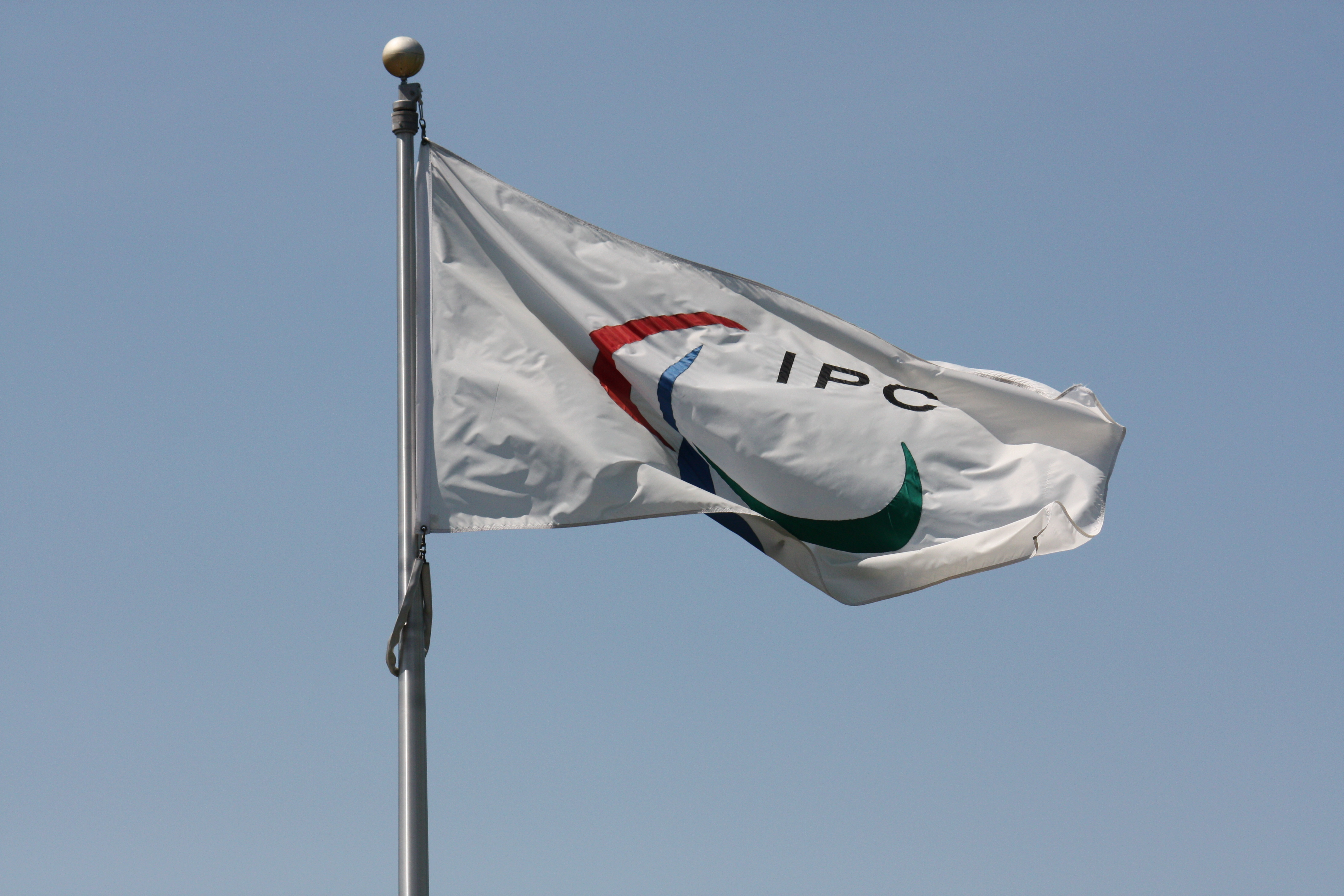 The flag of the International Paralympic Committee and the Paralympic Games.